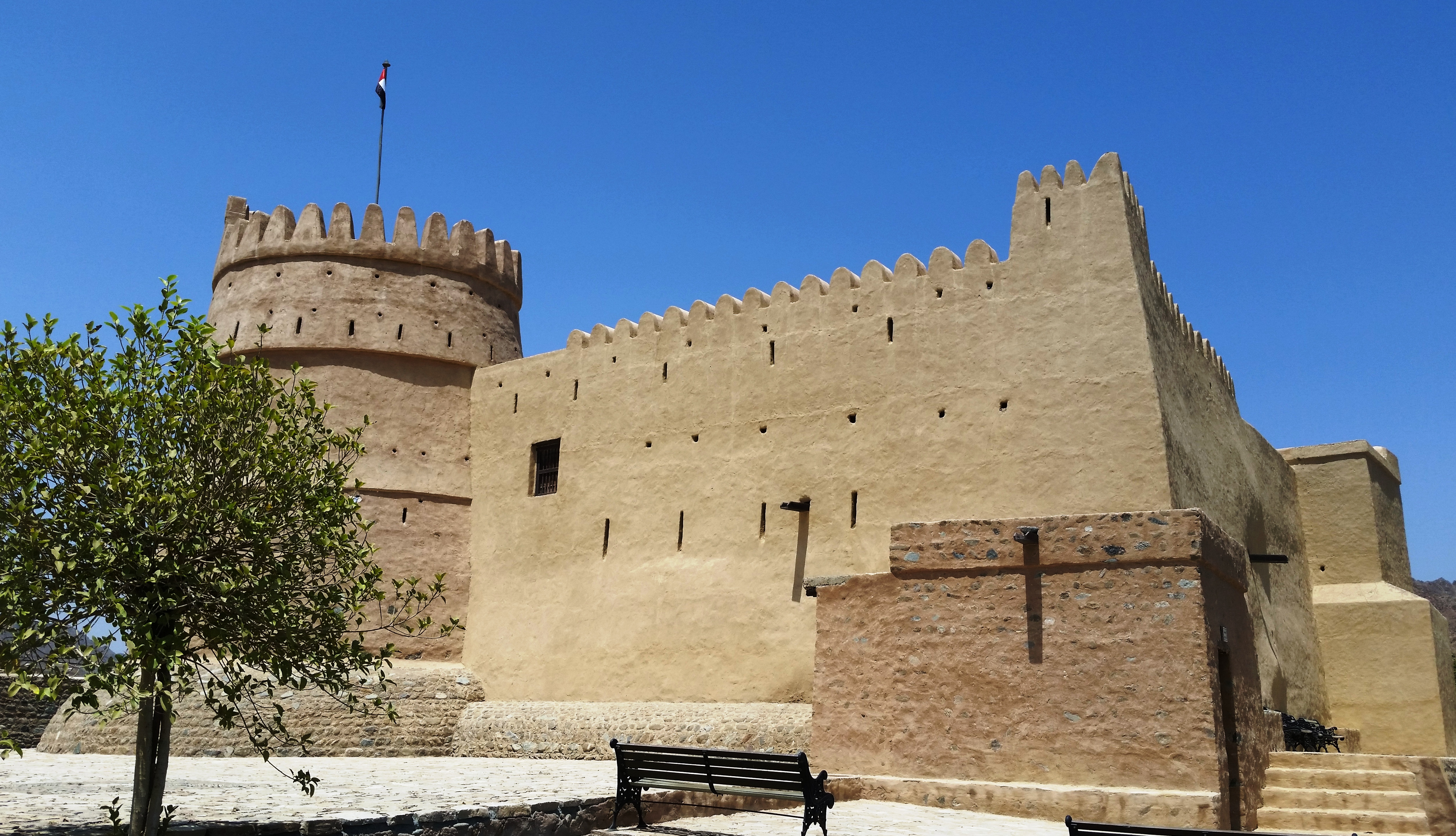 Al Bithnah Fort This is a monument in the United Arab Emirates identified by the ID F-5